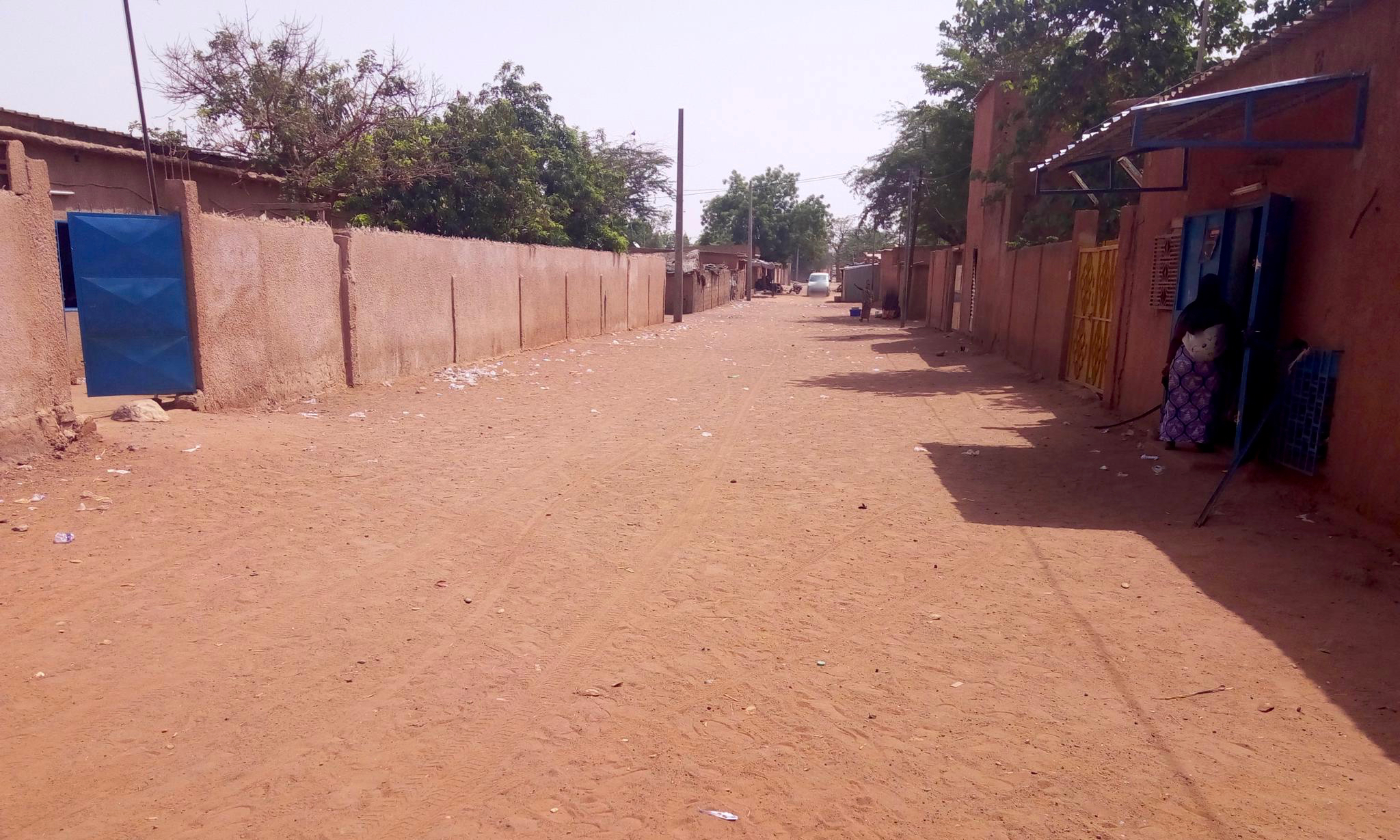 Rue TJ-59 in Talladjé, Niamey.